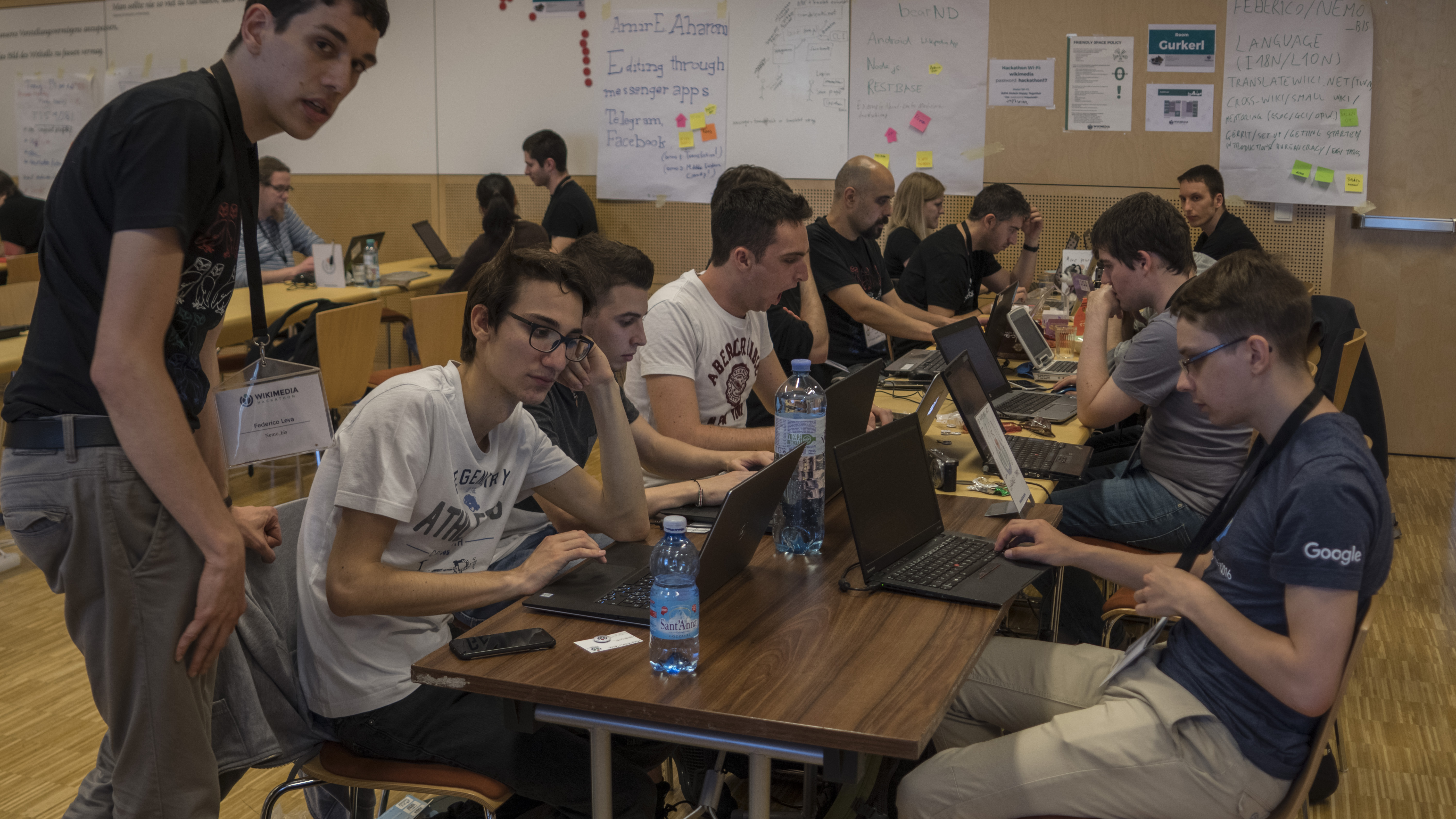 Attendees at the Wikimedia hackathon Vienna 2017